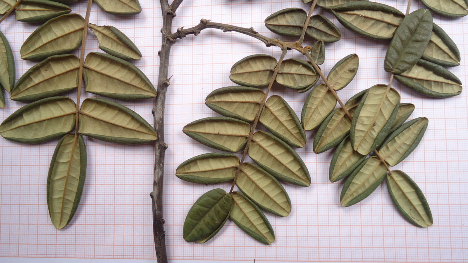 Swartzia arenophila R. B. Pinto, Torke & Mansano, sp. nov. ined.